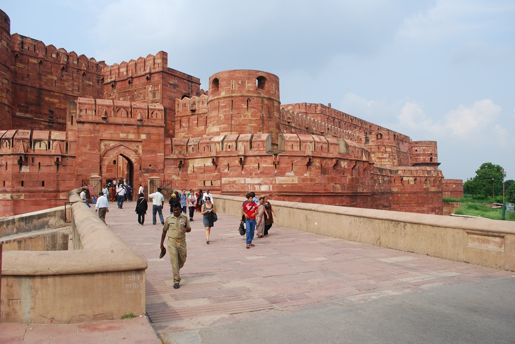 Amar Singh Gate at Agra Fort